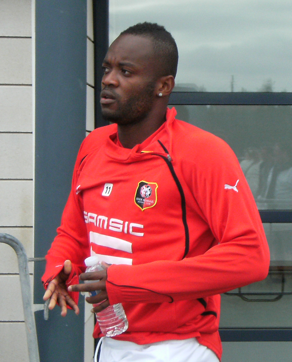 Jirès Kembo Ekoko before a friendly game between Stade rennais FC and Stade Malherbe de Caen in Ouistreham